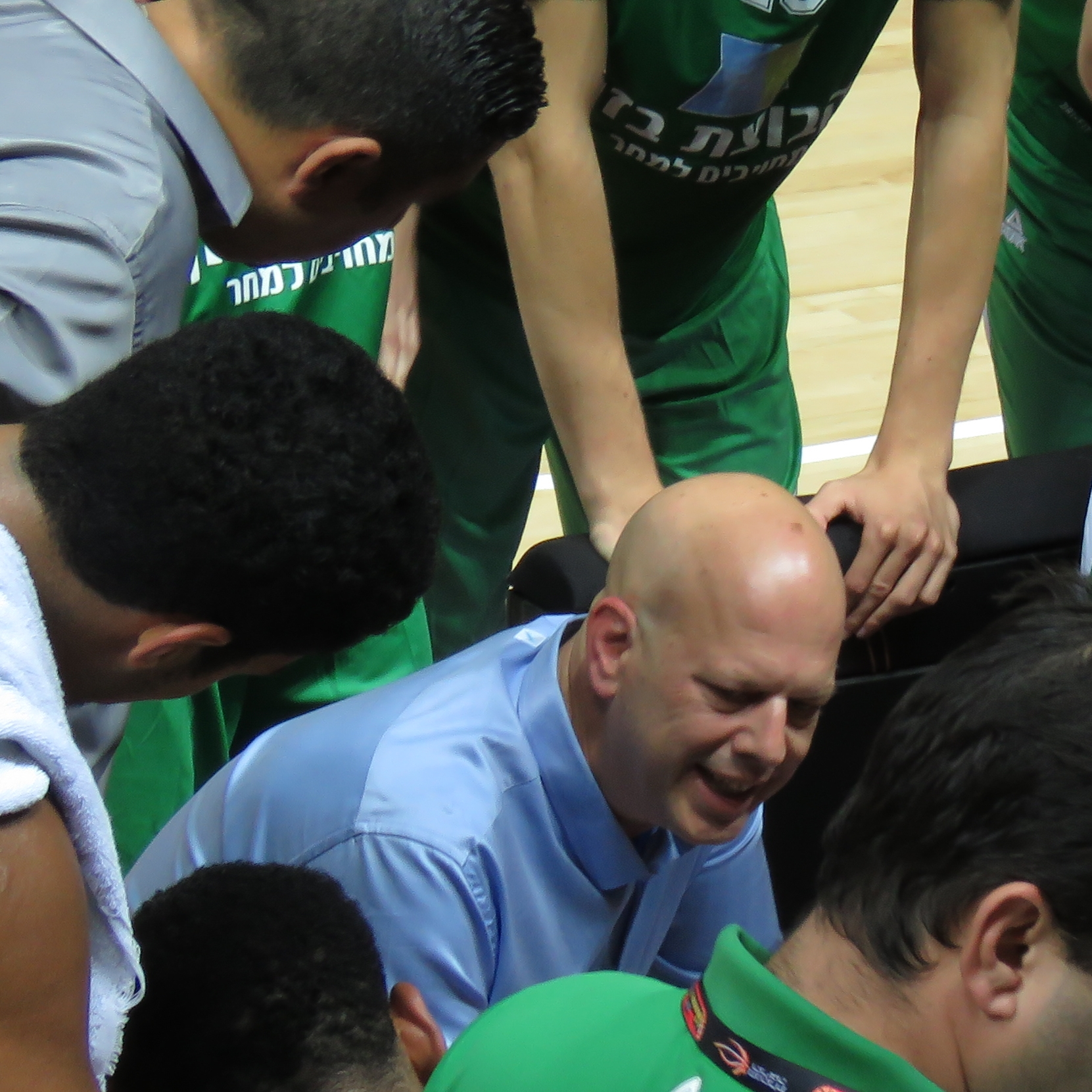 Hapoel Eilat vs. Maccabi Haifa B.C., 25 September, 2015